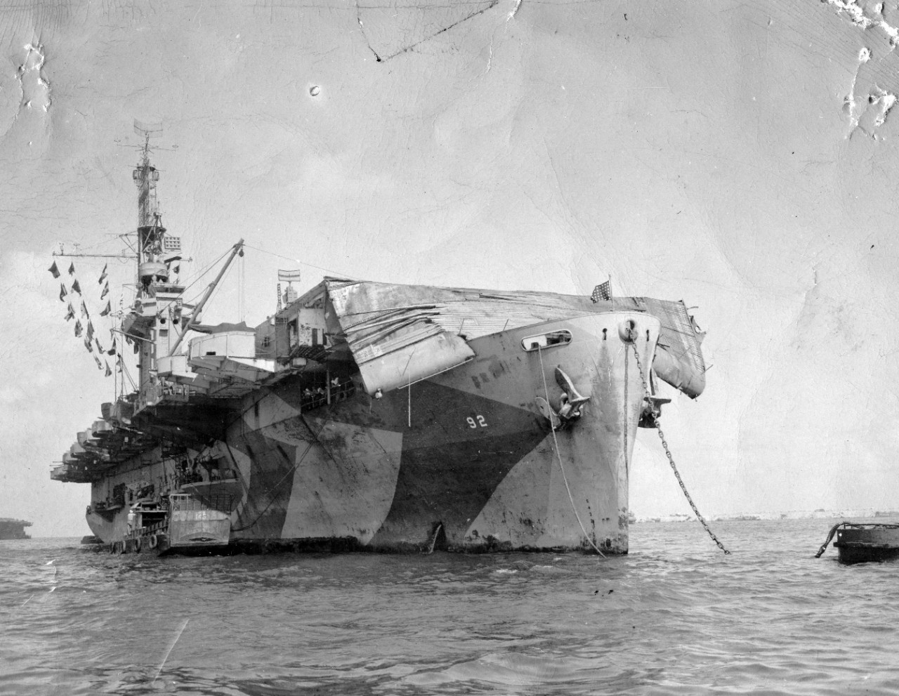 USS Windham Bay (CVE-92) at Guam about 11th of June, 1945, after going through typhoon of off Okinawa, June 5th 1945